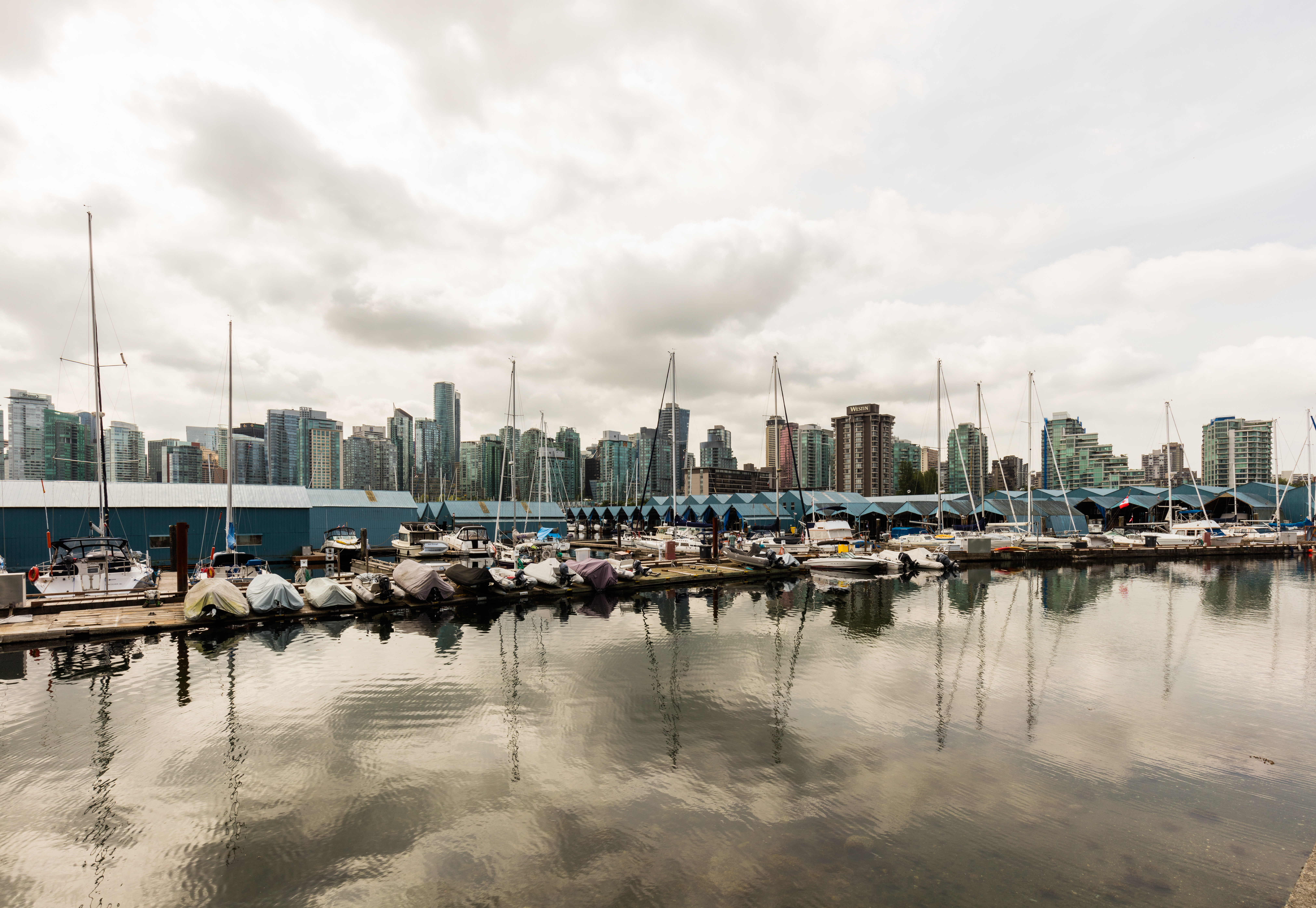 View of Vancouver from Stanley Park, Canada